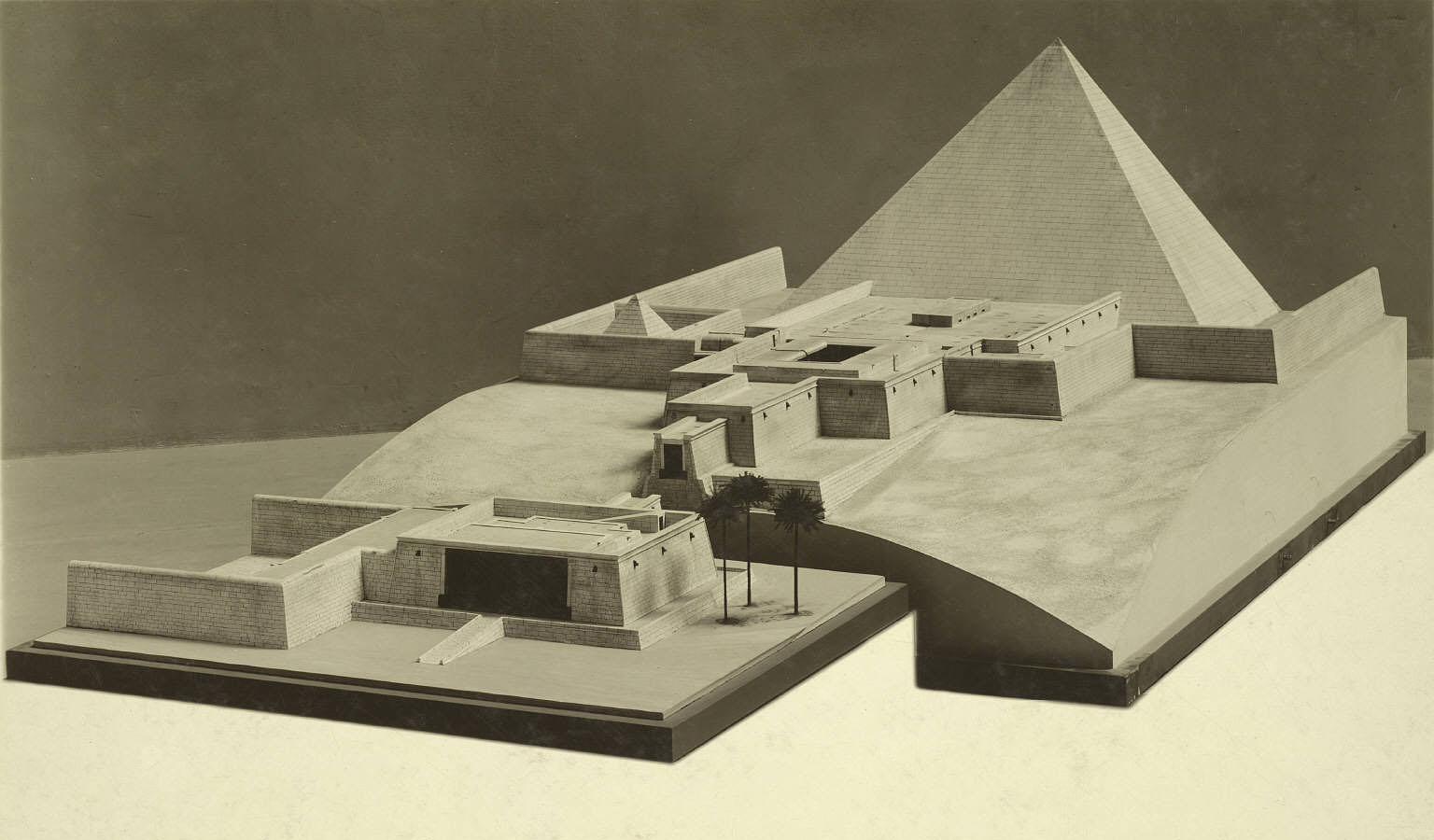 Model of King Sahure's Pyramid at Abusir Collection: A. D. White Architectural Photographs, Cornell University Library Accession Number: 15/5/3090.01488 Title: Metropolitan Museum Collection. Model of King Sahure's Pyramid at Abusir Model builders: Stegemann Brothers Model construction date: 1910 Photograph date: ca. 1910-ca. 1945 Materials: gelatin silver print Image: 9.0551 x 13.3071 in.; 23 x 33.8 cm Style: Egyptian Provenance: Transfer from the College of Architecture, Art and Planning Persistent URI: There are no known U.S. copyright restrictions on this image. The digital file is owned by the Cornell University Library which is making it freely available with the request that, when possible, the Library be credited as its source. We had some help with the geocoding from Web Services by Yahoo!